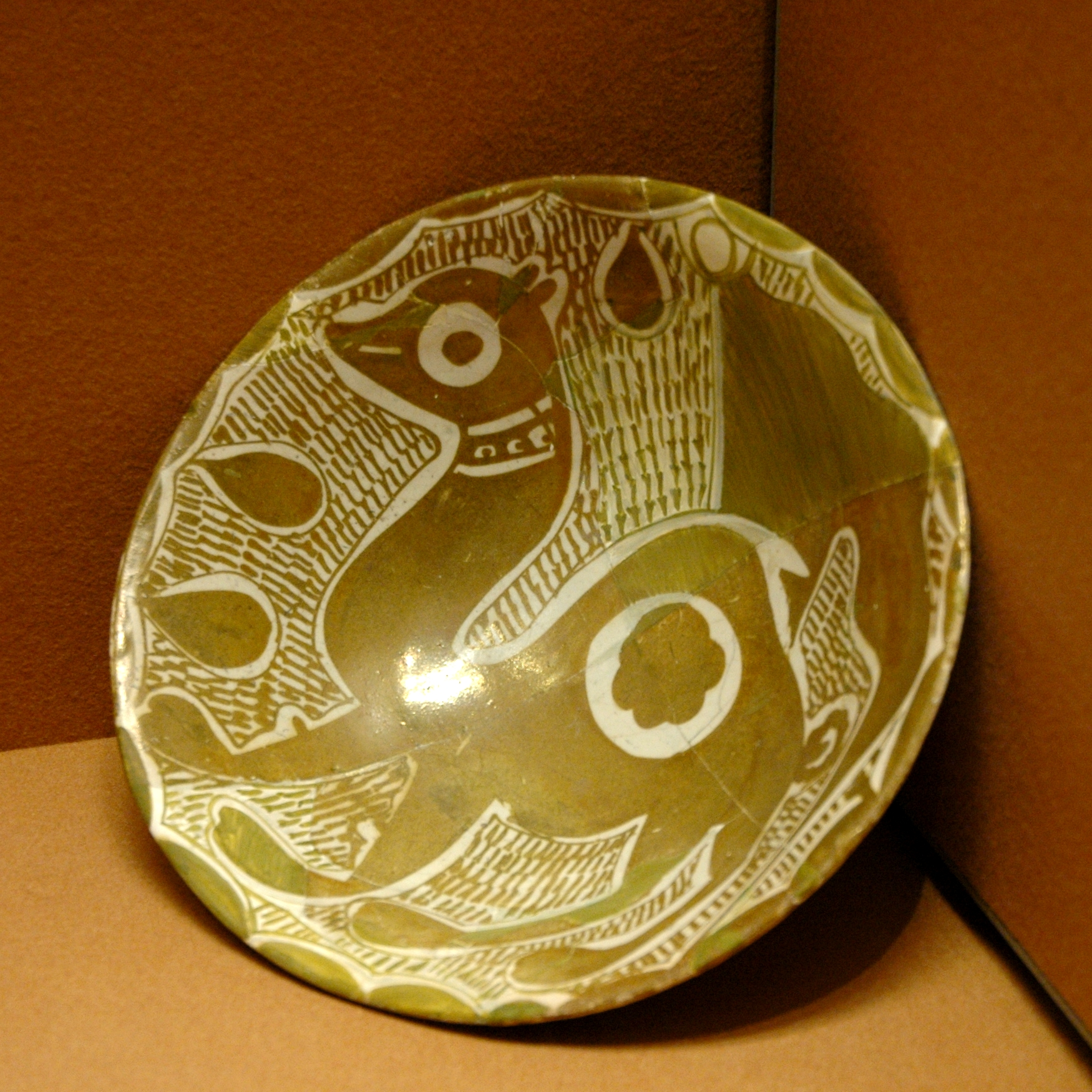 Cup with a dromedary bearing a flag.